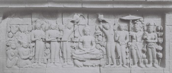 Relief panel "The Bodhisatva is bathed in the lotos pond", Borobudur, Central-Java.